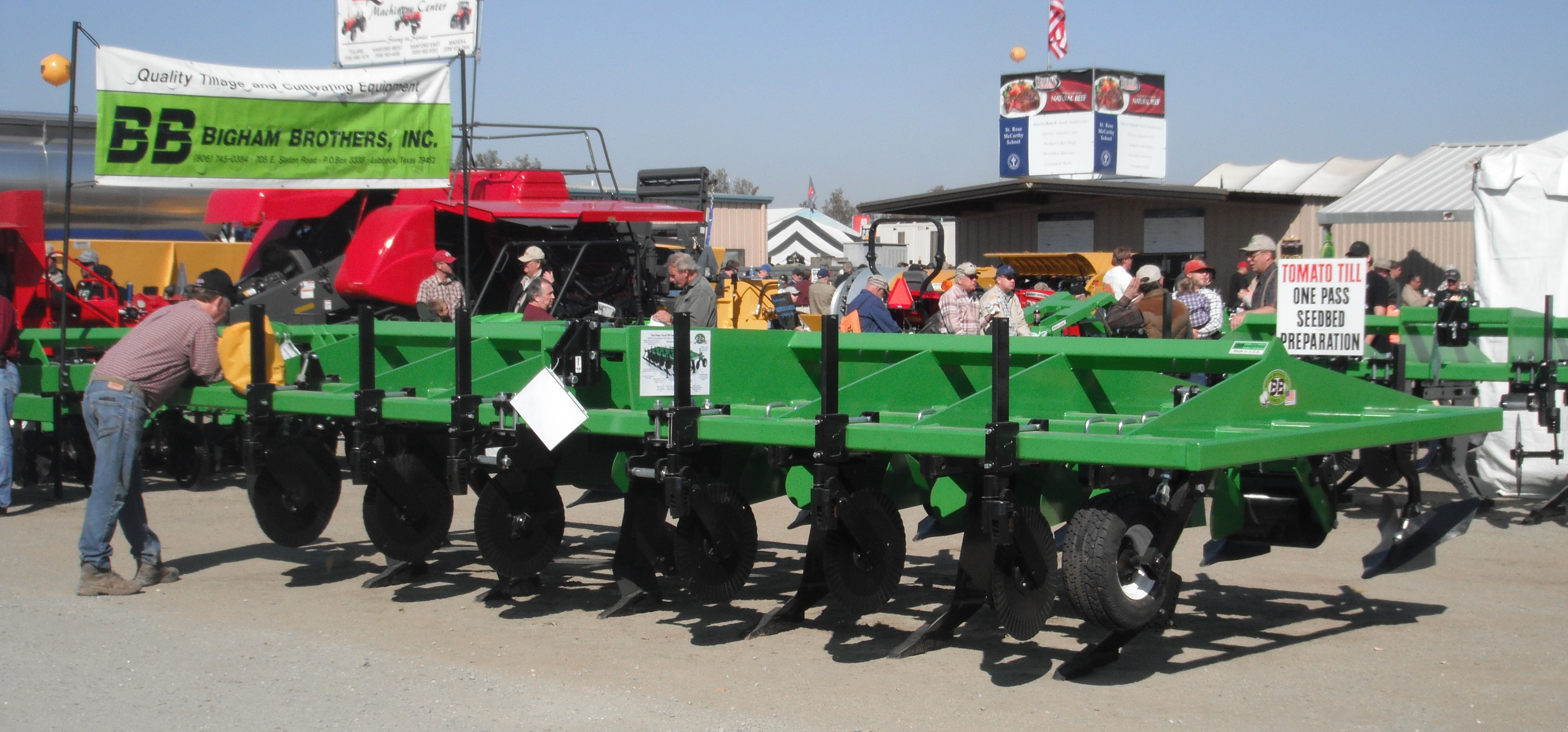 A one pass seedbed till (a sort of ridger) by Bigham Brothers at World Ag Expo 2011.